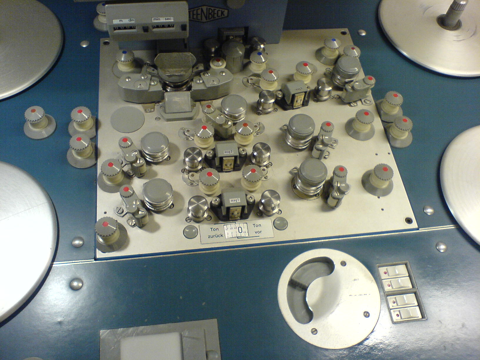 A 16 mm film flatbed editor